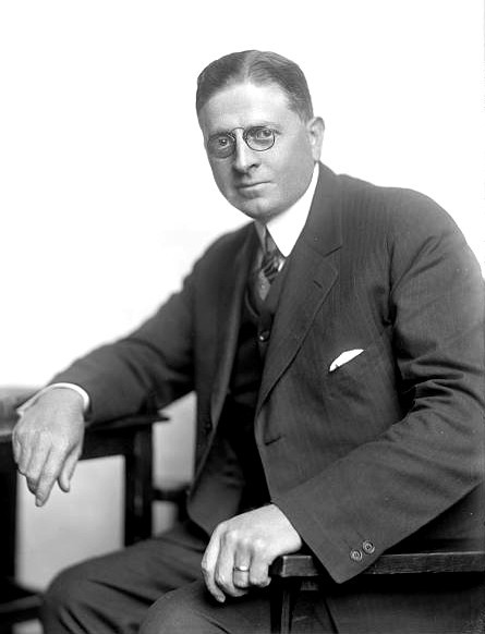 A picture of Frederick Brown Moorehead, Dean of xx at University of Illinois, noted oral surgeon. Part of a collection at Library of Congress. Frederick B. Moorehead